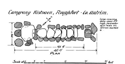 Craigarogan wedge tomb - A plan drawn in the early 1900s shows a long boulder-built gallery covered by a series of roofstones which decrease in height from front to back, typical of wedge tomb construction